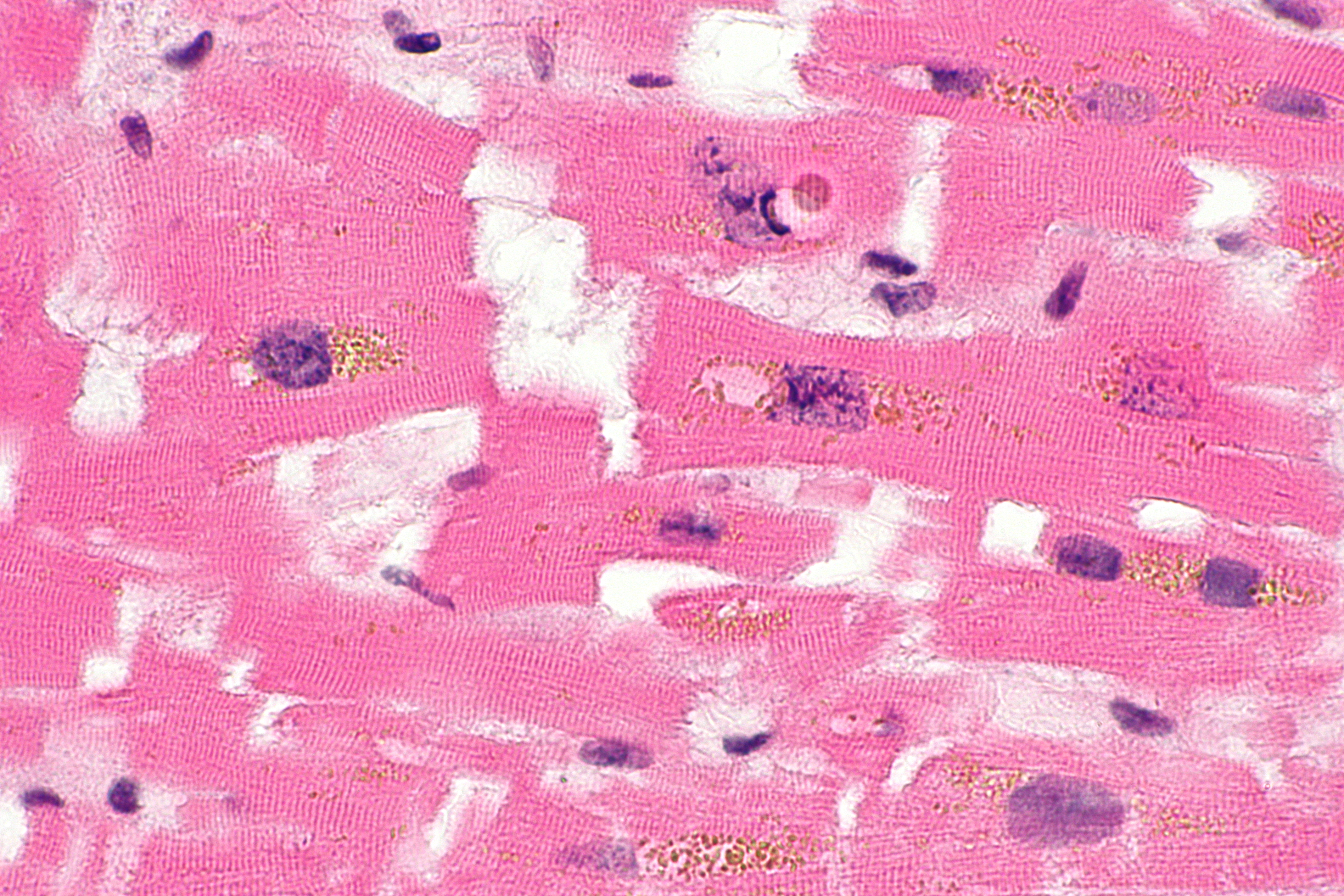 Micrograph of cardiac myofiberbreak-up, abbreviated MFB. H&E stain. MFB is considered a marker of ventricular fibrillation in sudden cardiac death. Related images MFB - intermed. mag. MFB - high mag. MFB - very high mag. MFB - very high mag.